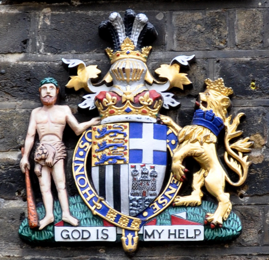 London, Ede & Ravenscroft shop on Burlington Gardens, plaques with coats of arms of the Royal family, „By Appointment to H. R. H. the Duke of Edinburgh Robe Makers“